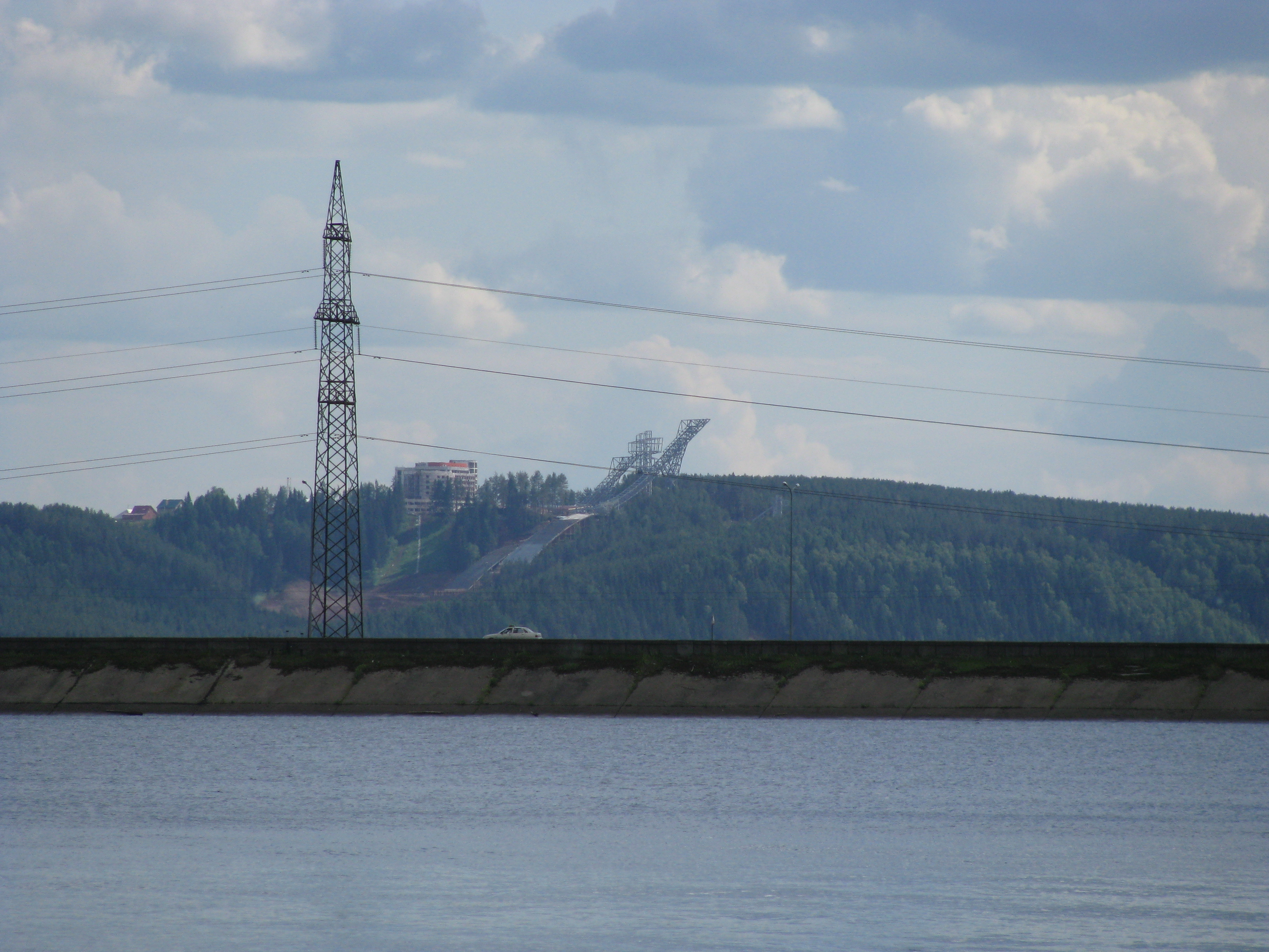 Building of ski jumping complex in Chaykovsky, Perm Krai, Russia